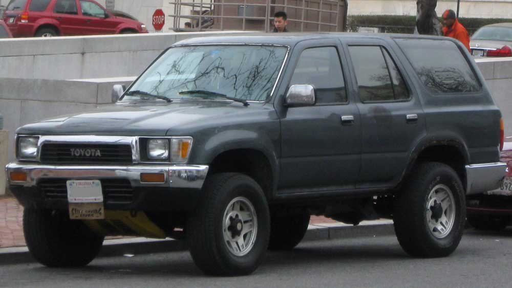 1990-1991 Toyota 4Runner photographed in Washington, D.C., USA.